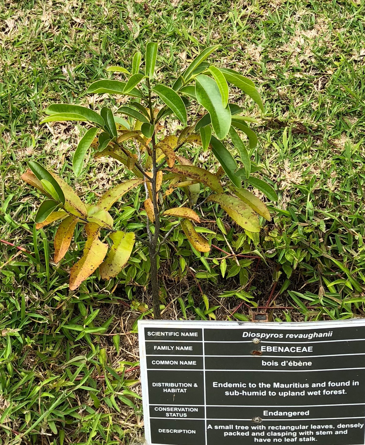 Juvenile Diospyros revaughanii - Vallee dOosterlog